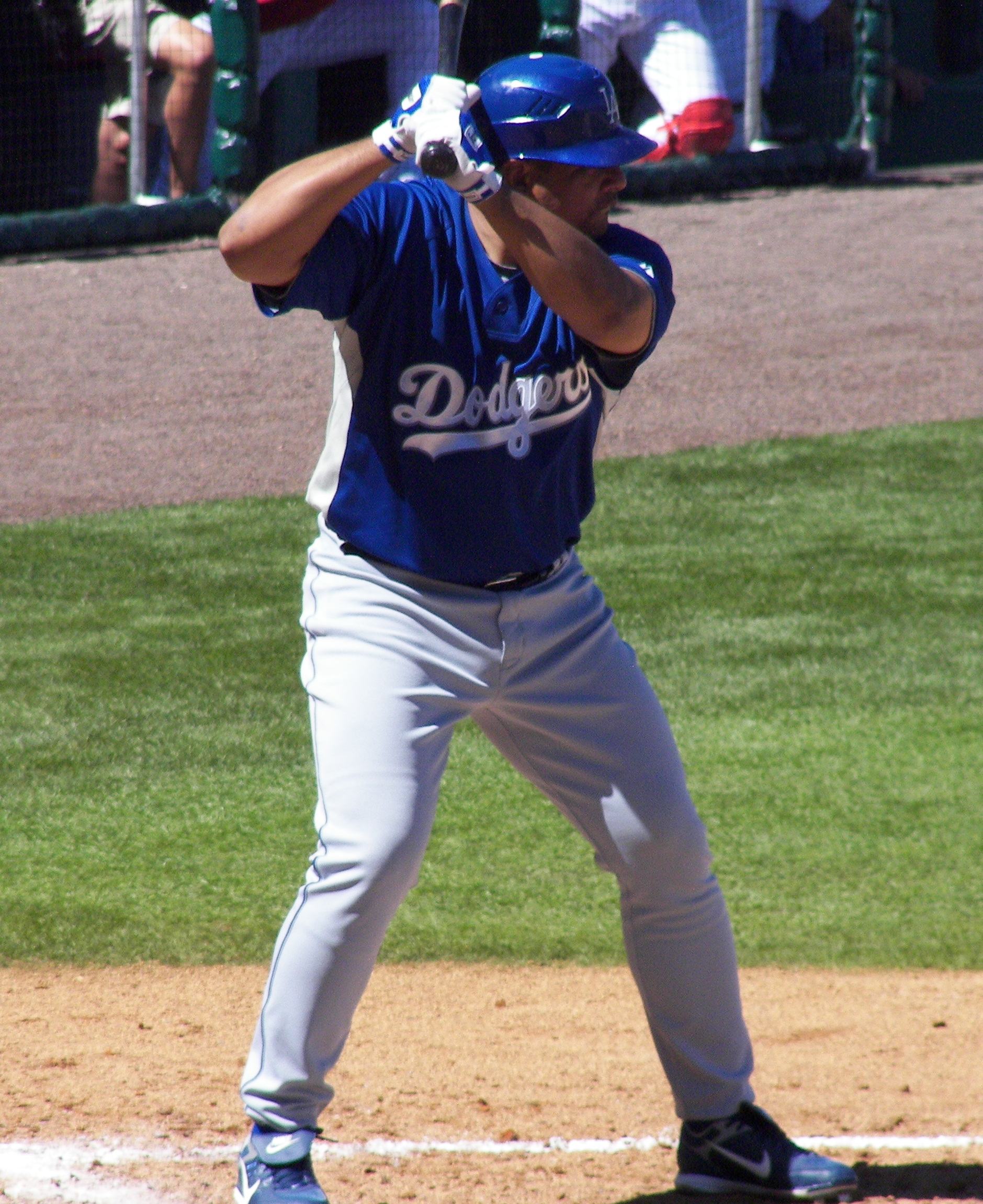 Los Angeles Dodgers infielder Olmedo Sáenz batting during a Dodgers/Boston Red Sox spring training game at City of Palms Park in Fort Myers, Florida.